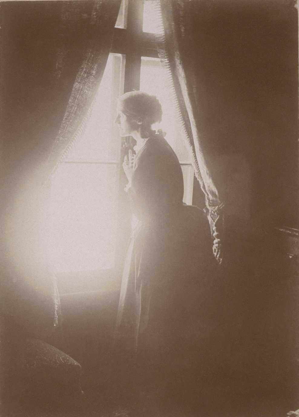 Julia looking from the window of the Bear Hotel at Grindelwald during their vacation in Switzerland